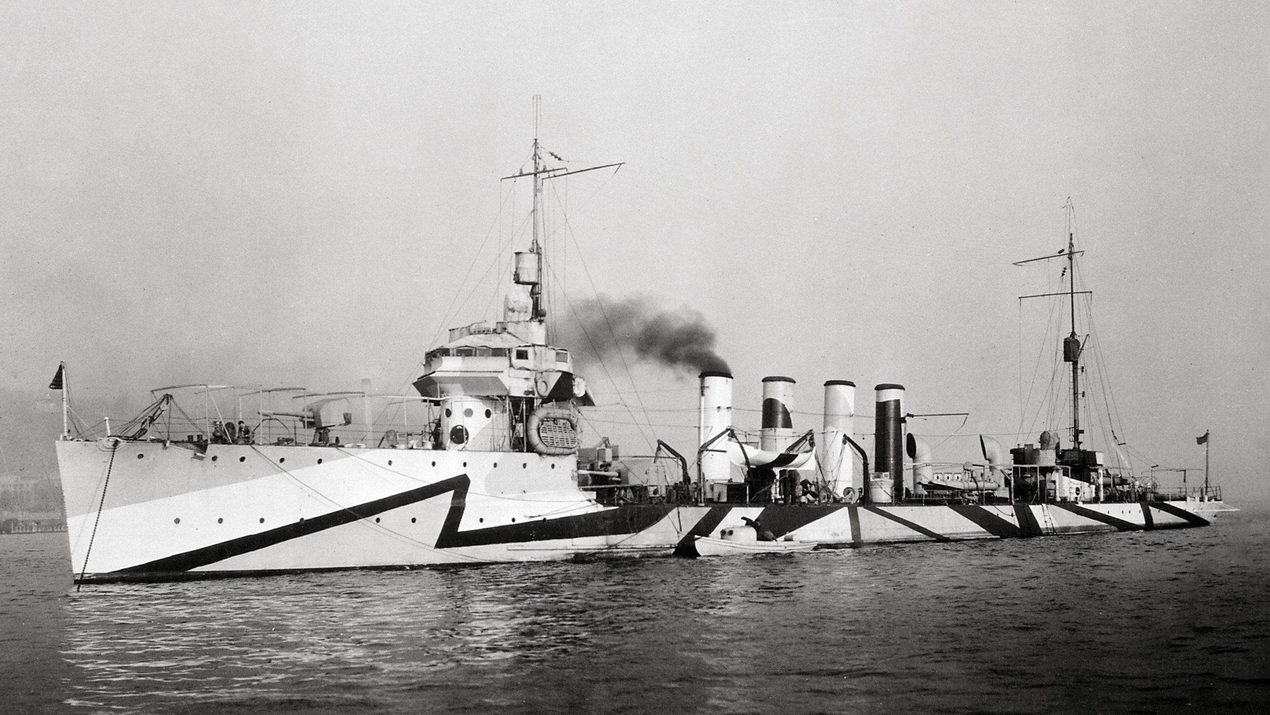 USS Henley DD39